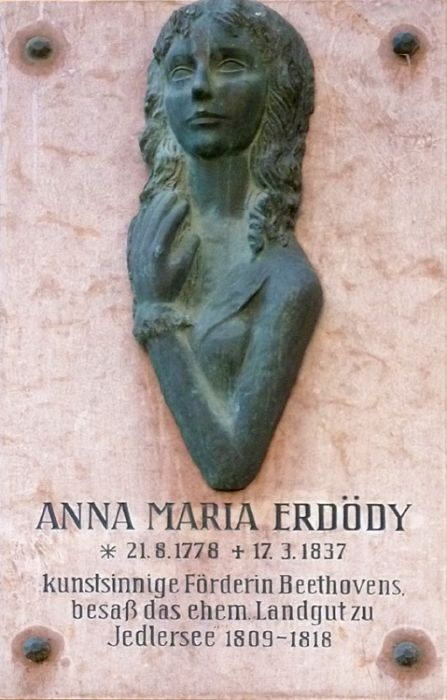 A plaque affixed to the wall of a house in Jedlesee, Vienna, commemorating the residence there of Anna Maria Erdödy, Beethoven's patroness and friend